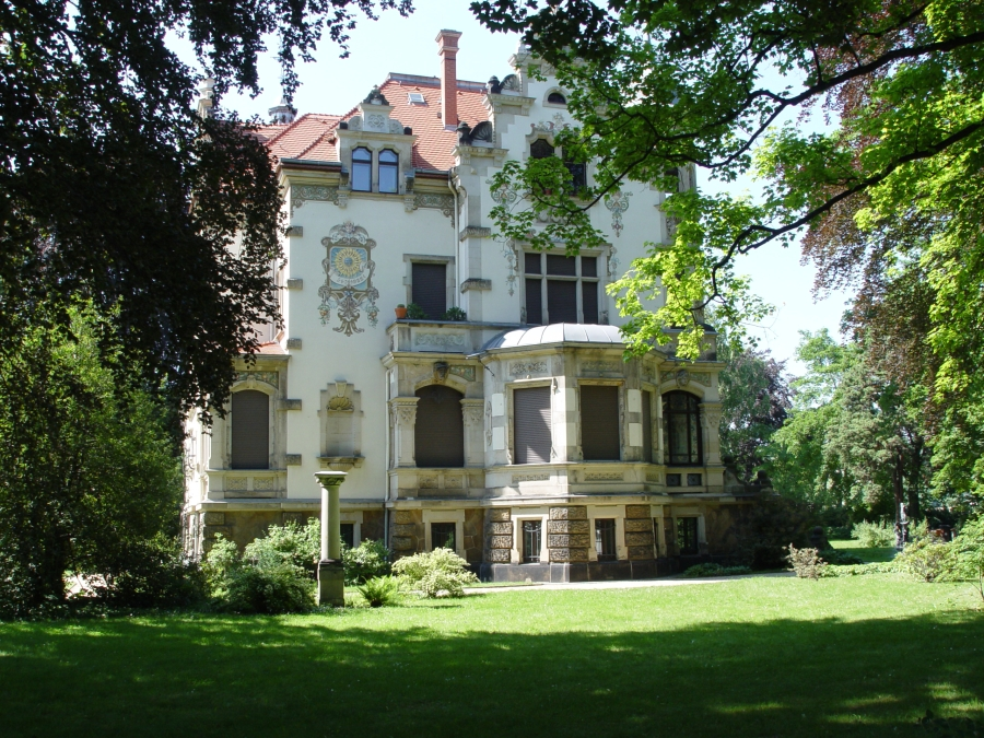 A villa house in Dresden-Blasewitz, Goetheallee 55 (Villa Weigang) registry office